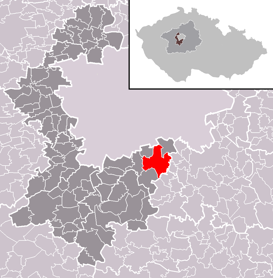 Location of Jesenice municipality within Prague-West District and administrative area of Černošice as a Municipality with Extended Competence.